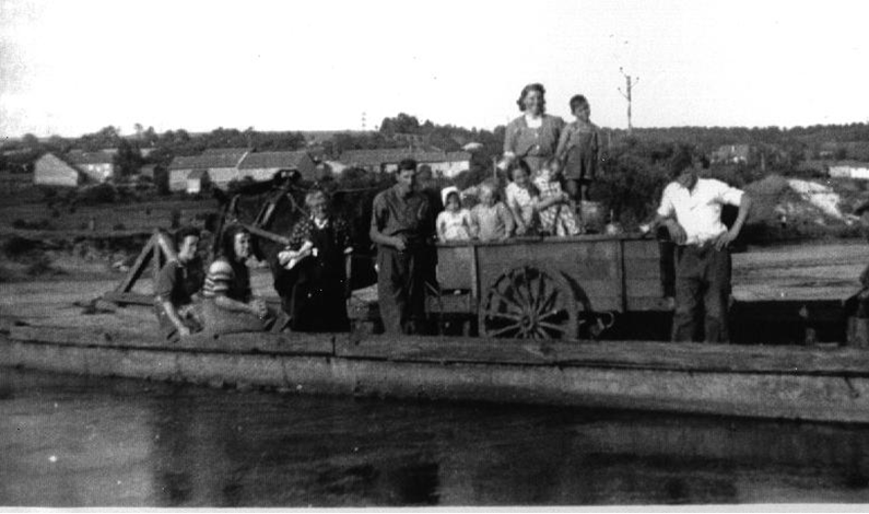 The crossing of the Meuse by Martincourt sur Meuse after 1940